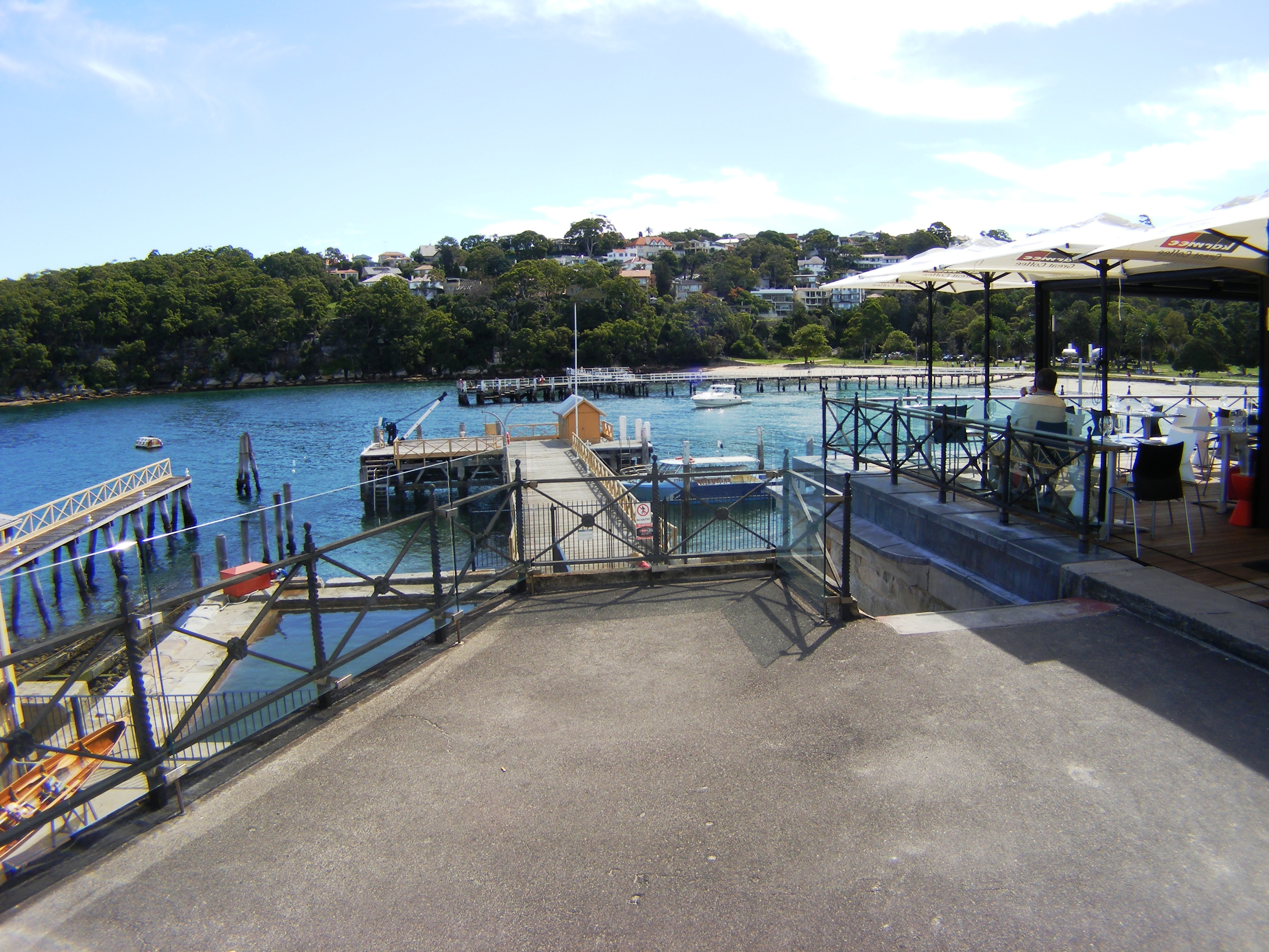 Submarine mining depot, Chowder Bay, Sydney